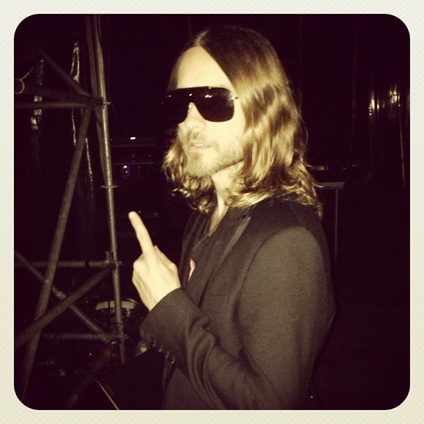 This photo is from the tour.